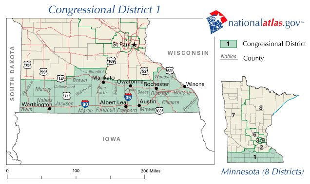 A picture of Minnesota's 1st congressional district, from the National Atlas.